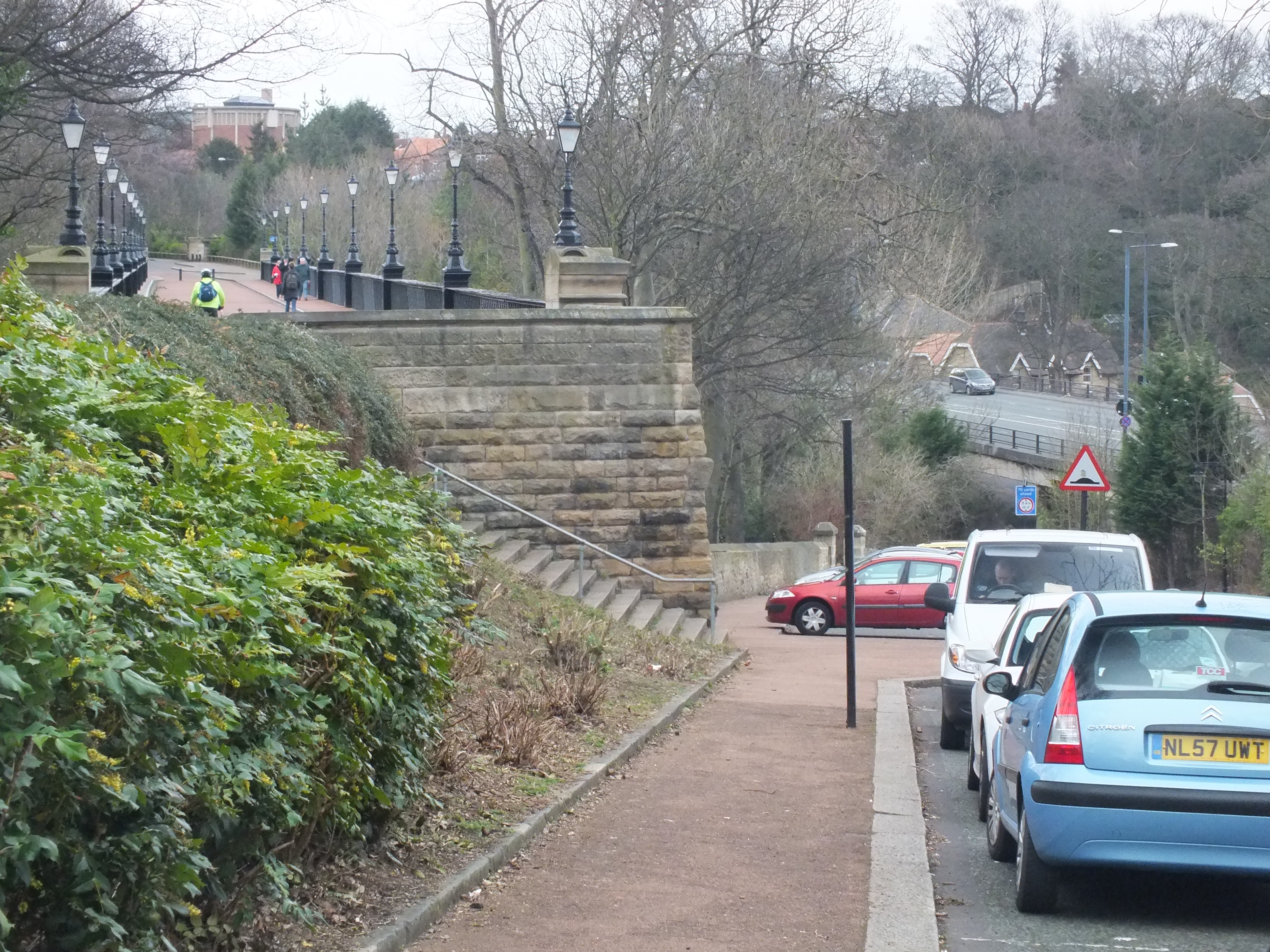 Jesmond Dene is one of the Ouseburn Parks, near Jesmond in Newcastle upon Tyne. The Land was given to William Armstrong as a wedding present in 1835. He planted hundreds of shrubs and laid miles of paths, built a grotto, many bridges and a waterfall on the Ouse Burn. The Armstrong Bridge that used to take the Coast Road has now been replaced, and is open sole for pedestrians.